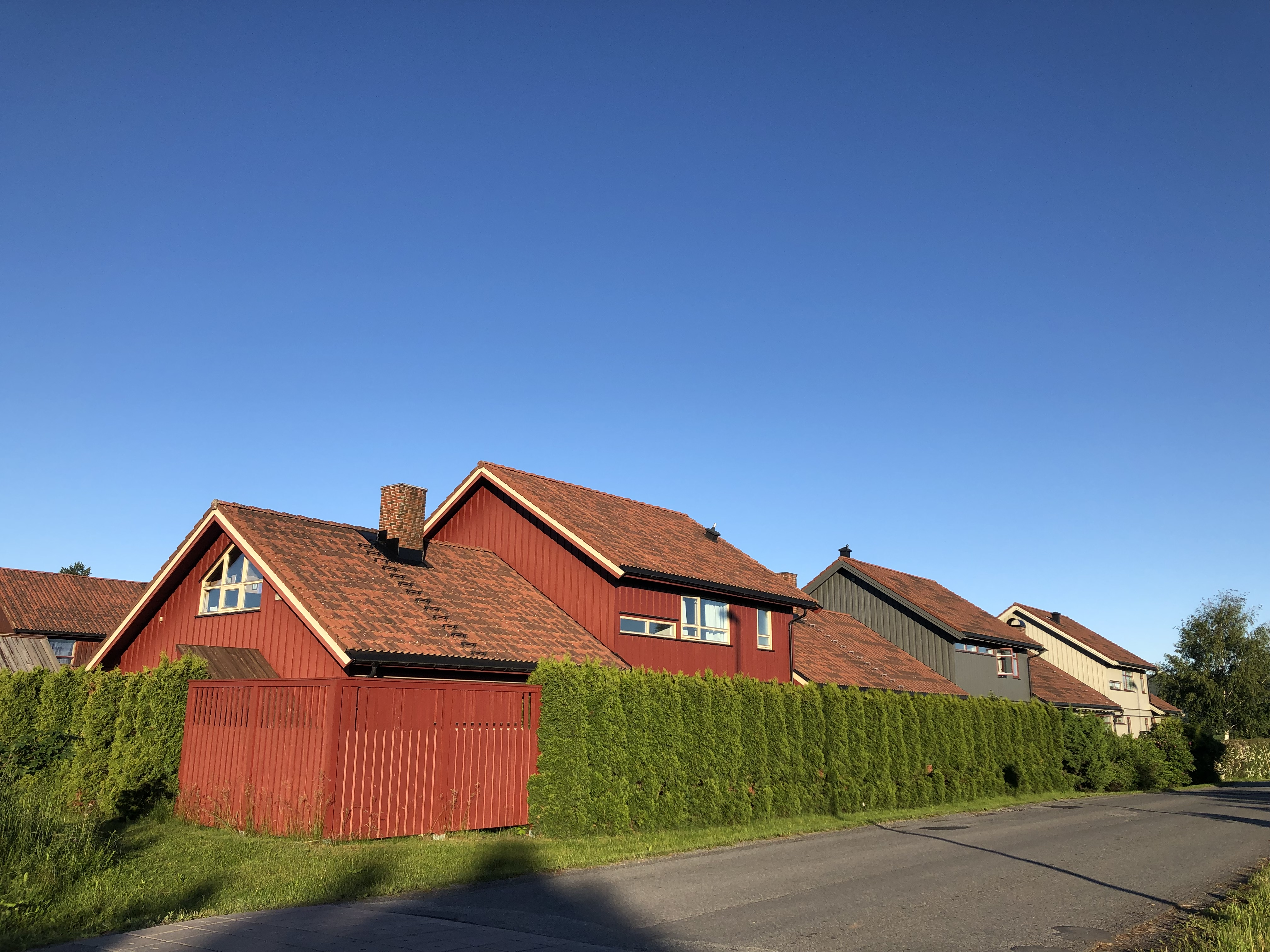 The street Veienkroken in Hønefoss, Norway.